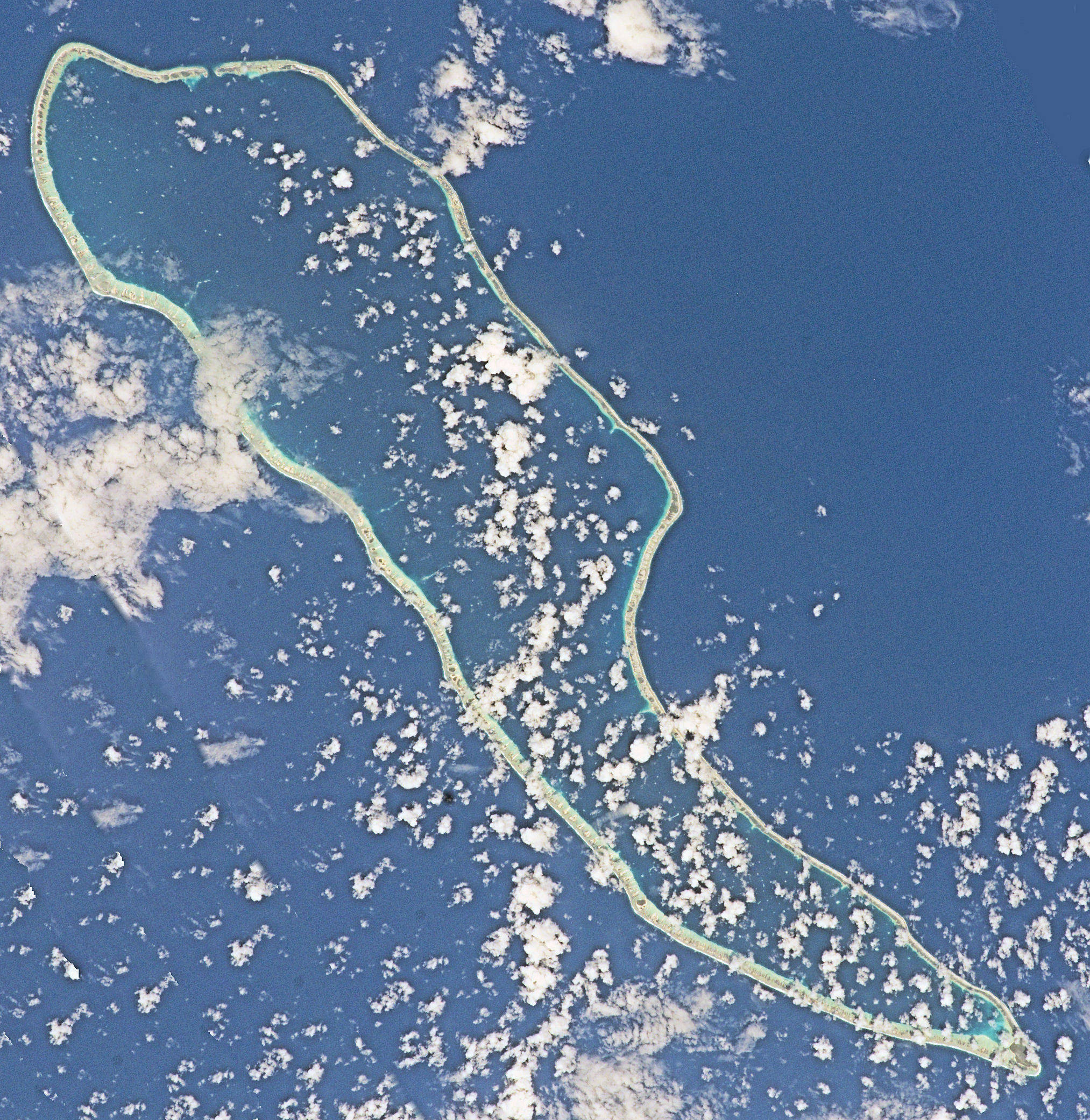 Atoll Hao (Tuamotu Archipelago, French Polynesia), from spacecraft altitude of 354 km